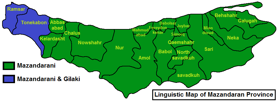 Lingusitic Map of Mazandaran Province